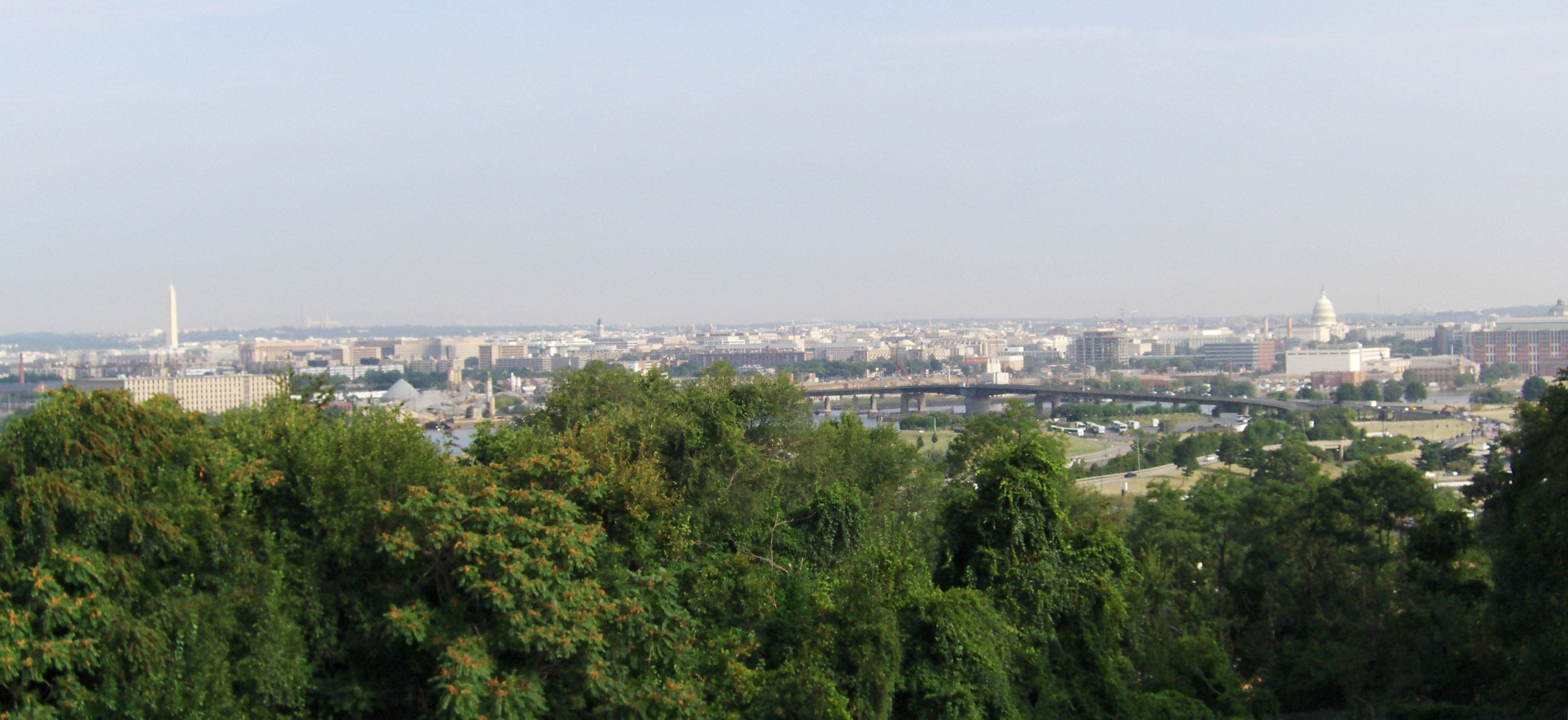 Skyline of Washington, D.C., seen from St. Elizabeths Hospital.